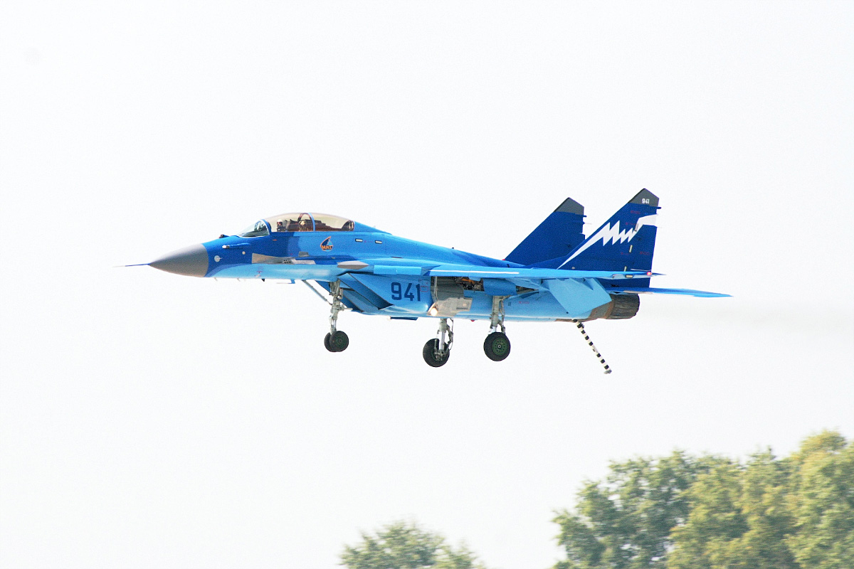 MIG-29 (naval version) at MAKS 2007